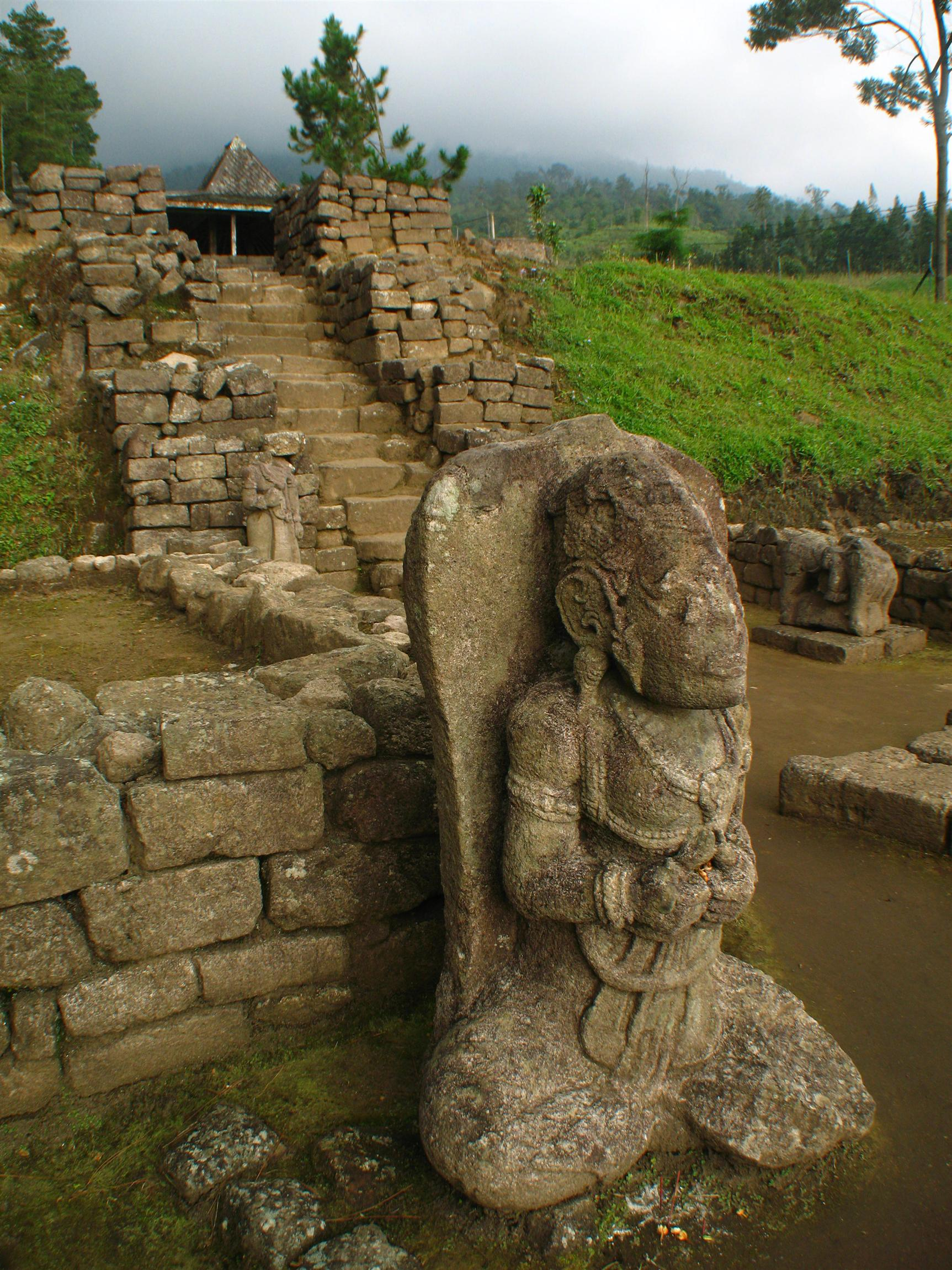 A statue on the main, lower-tier courtyard of Candi Cetho.